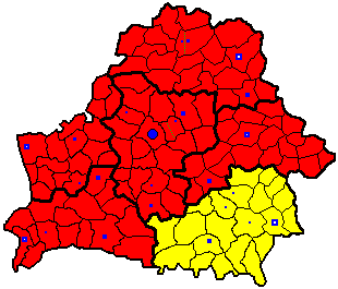 Map of Oblast Gomel in Belarus with district-level subdivisions